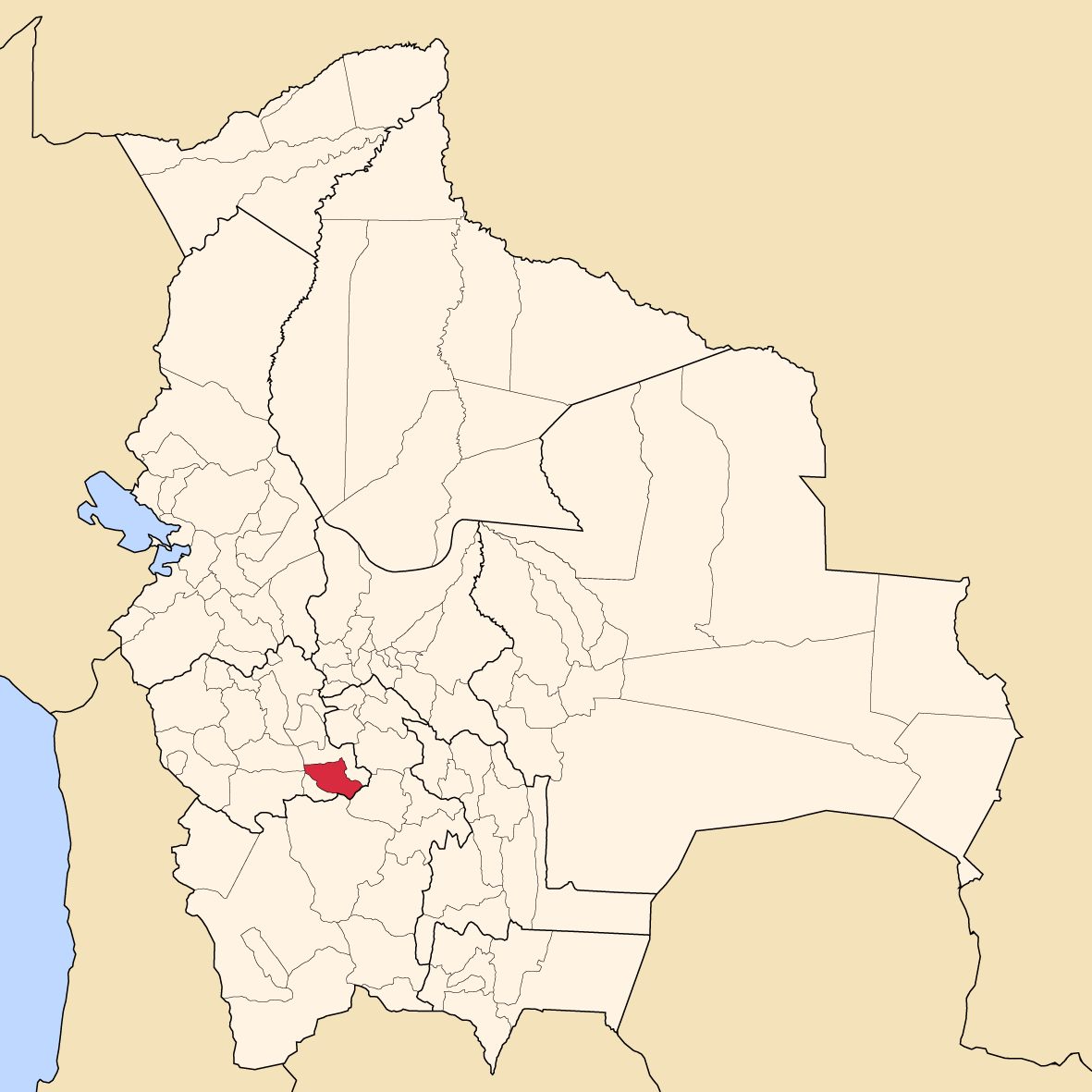 Map of Bolivia showing Sebastián Pagador province, Oruro